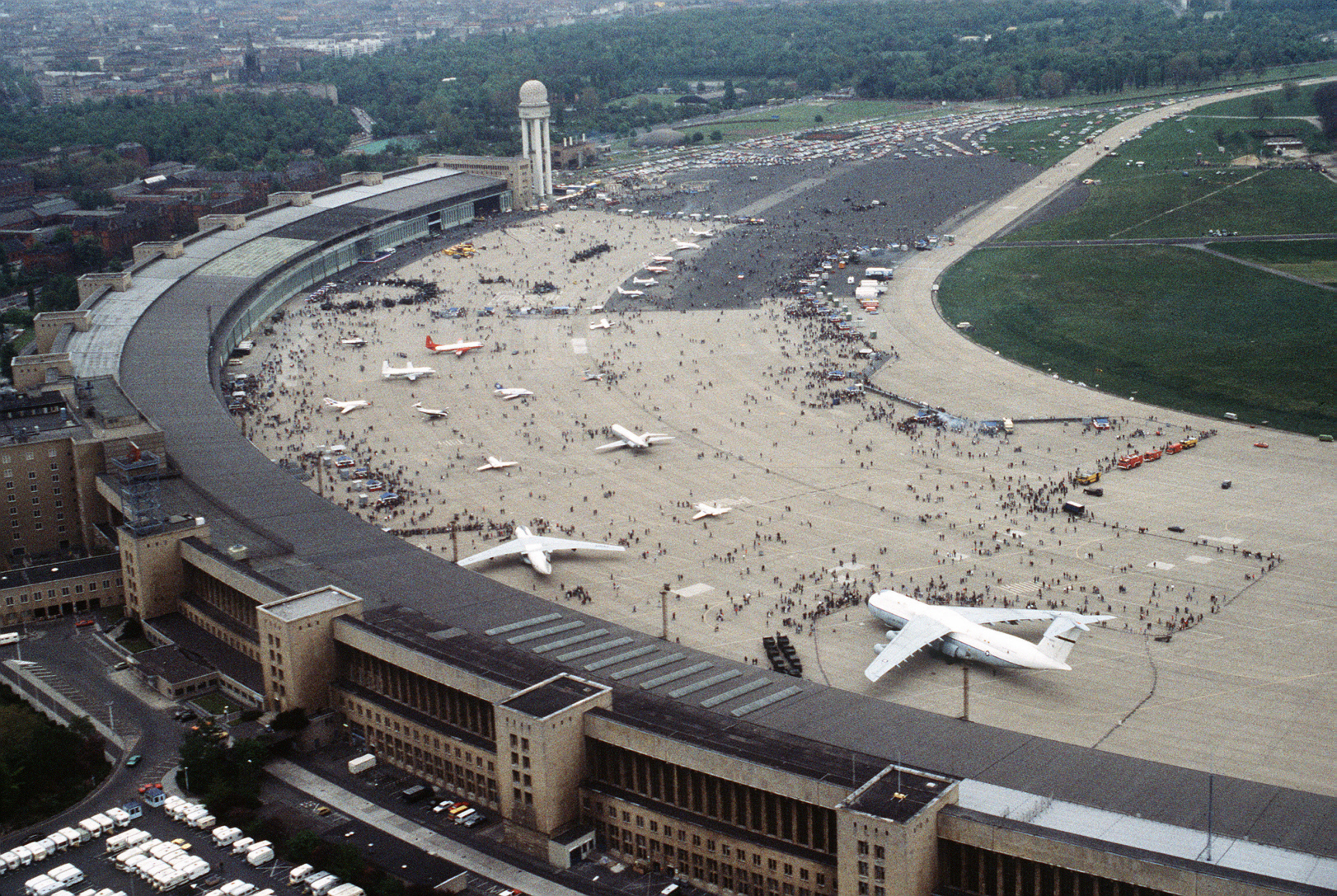 An aerial view of an open house being held at the Tempelhof International Airport in 1984.